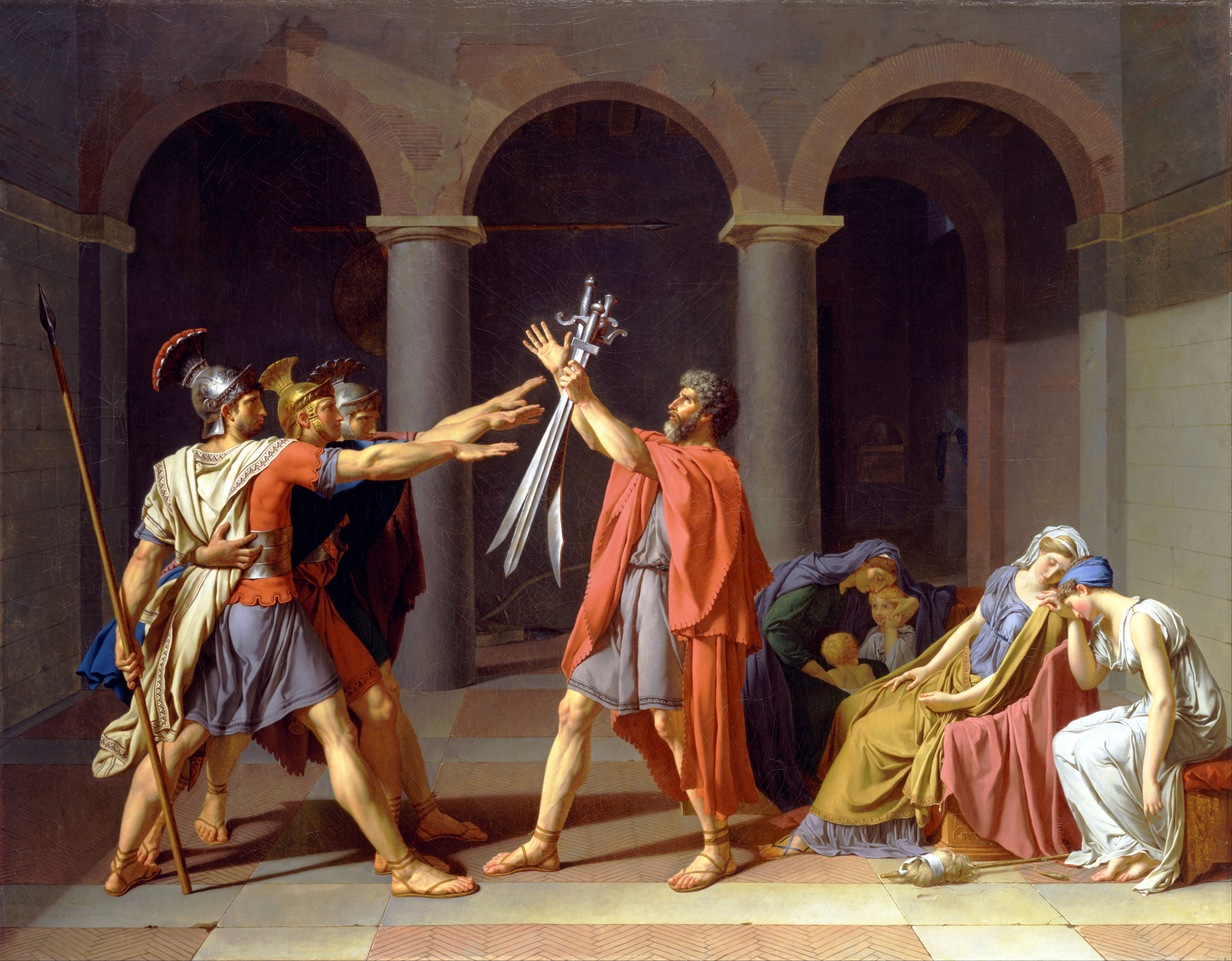 Copy of the painting now in the Louvre made in 1786 to the Comte de Vaudreuil